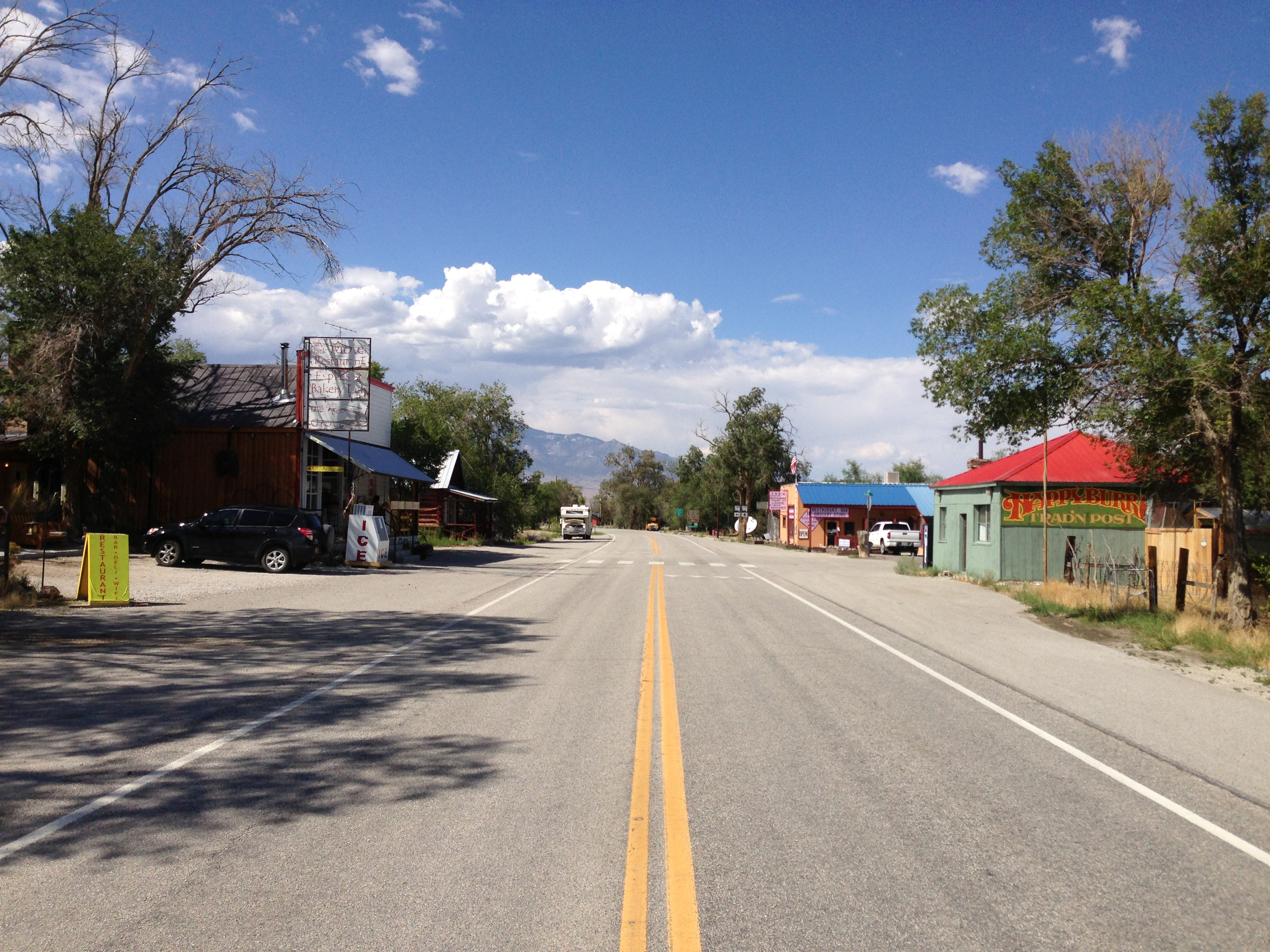 View north along Nevada State Route 487 (Baker Road) about 6.1 miles north of the Utah state line in Baker, Nevada